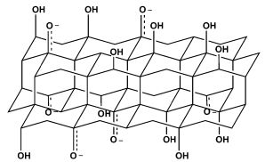 Nakajima-Matsuo formula